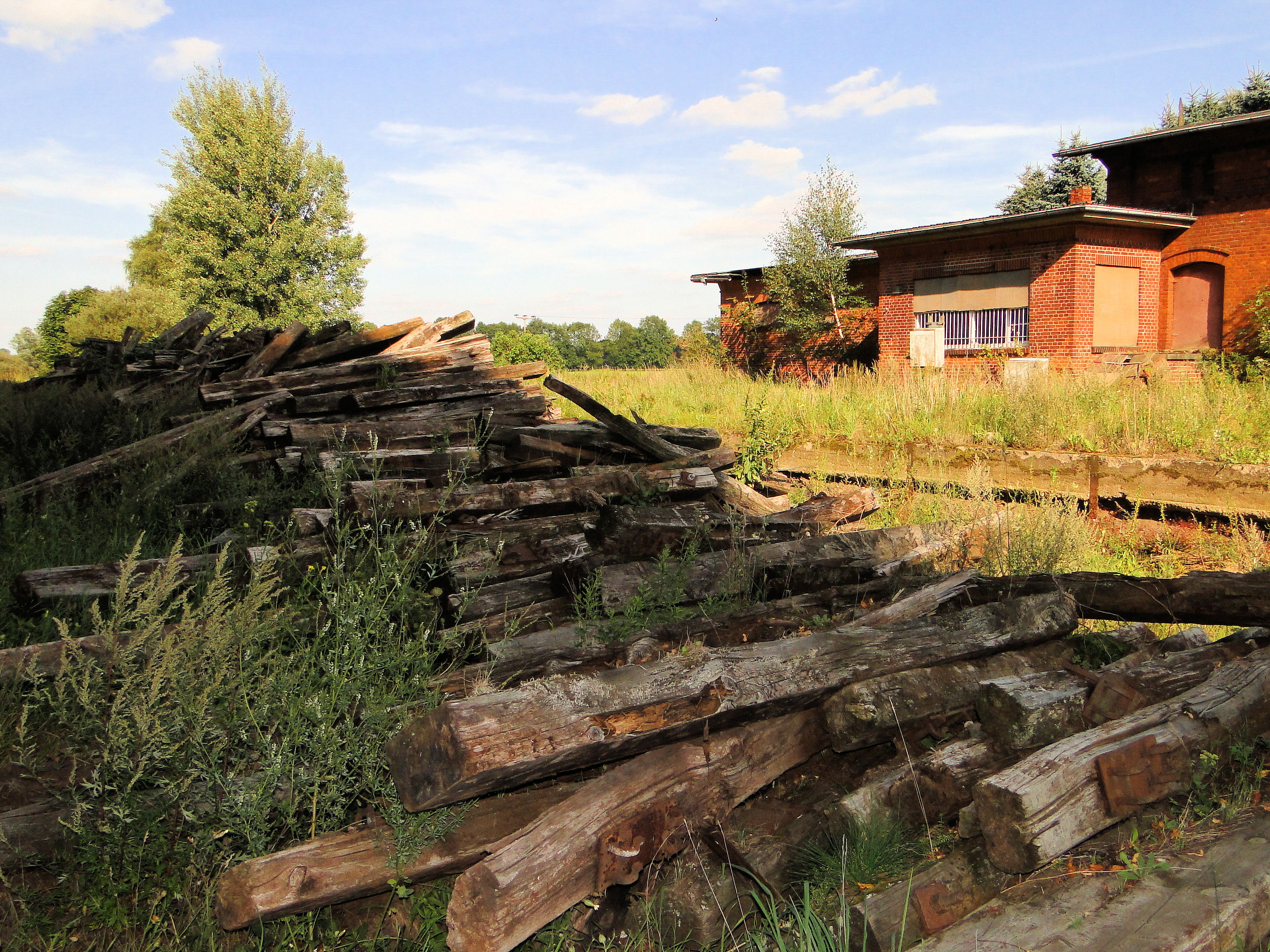 Former train station Alt Karstädt in Karstädt, district Ludwigslust, Mecklenburg-Vorpommern, Germany